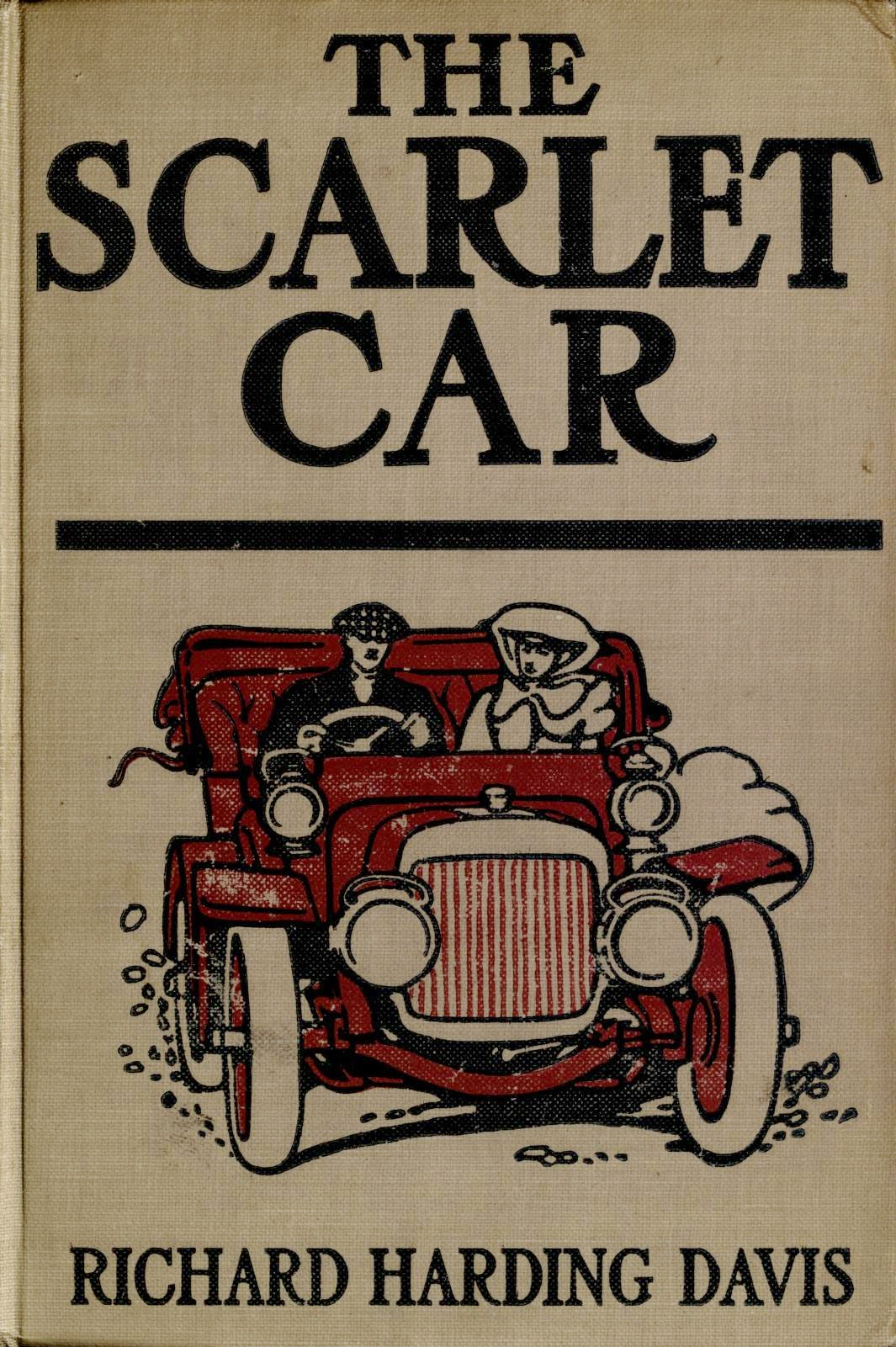 First edition cover for The Scarlet Car (1907) by Richard Harding Davis.